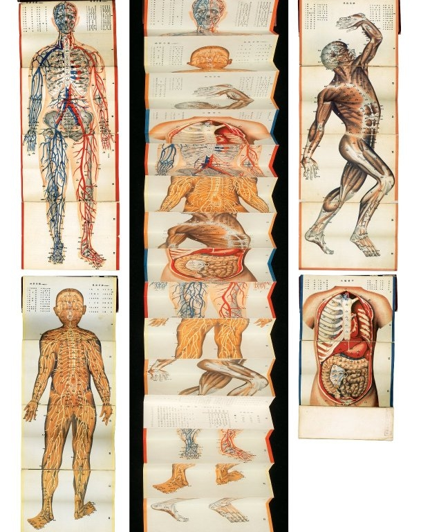 The manifold can display 3 different full-length views of the body and a cut-open view of the inner organs of the torso with acupuncture points in relation to anatomy. A chart of acupuncture points, corresponding meridian channels, and their therapeutic uses are in the back of the chart.